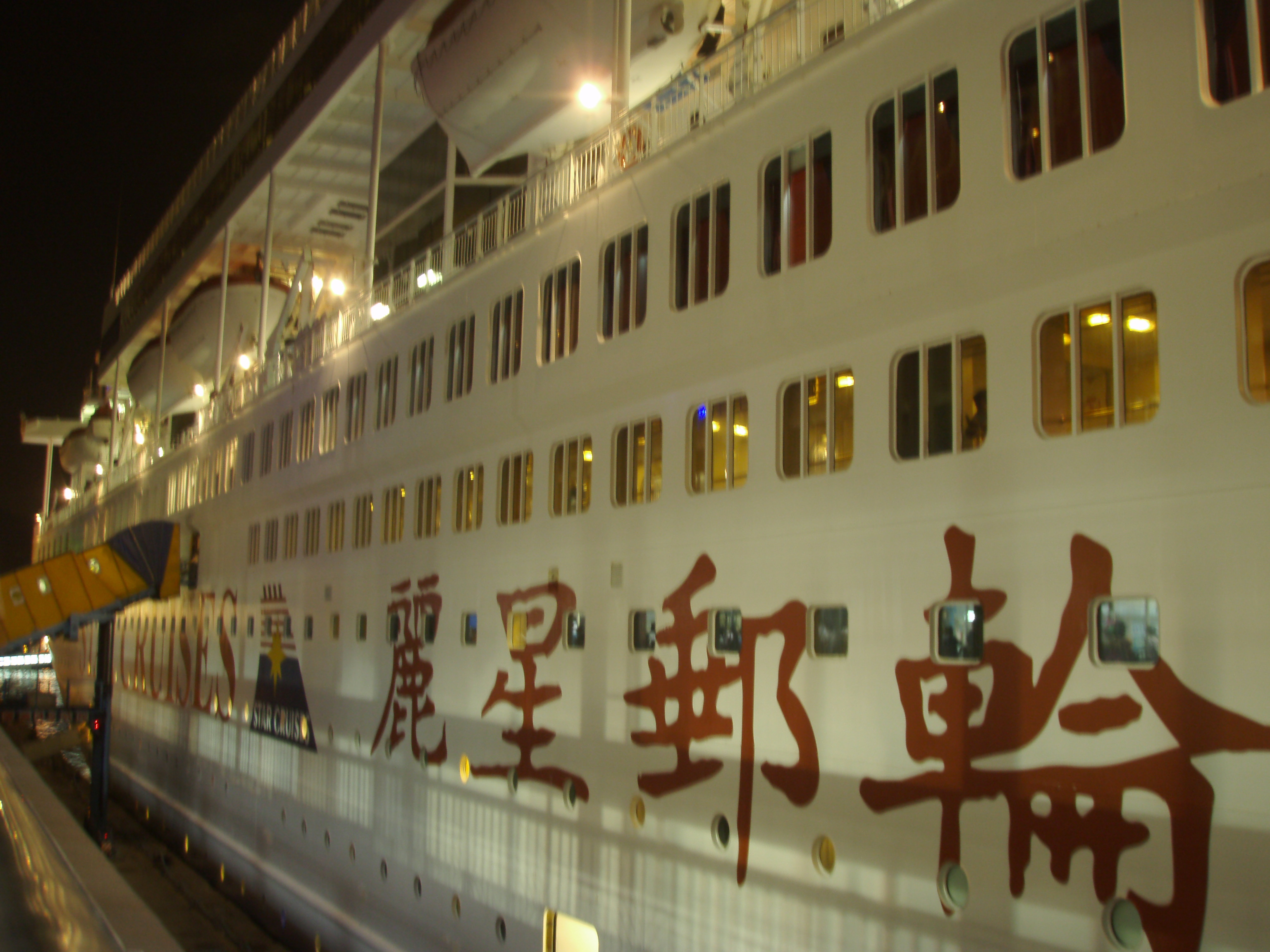 Star Cruises SuperStar Libra in Taiwan Keelung.